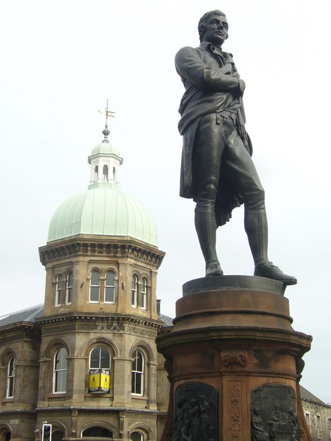 Robert Burns statue by David Watson Stevenson in Bernard Street, Leith. It was unveiled on October 15, 1898.